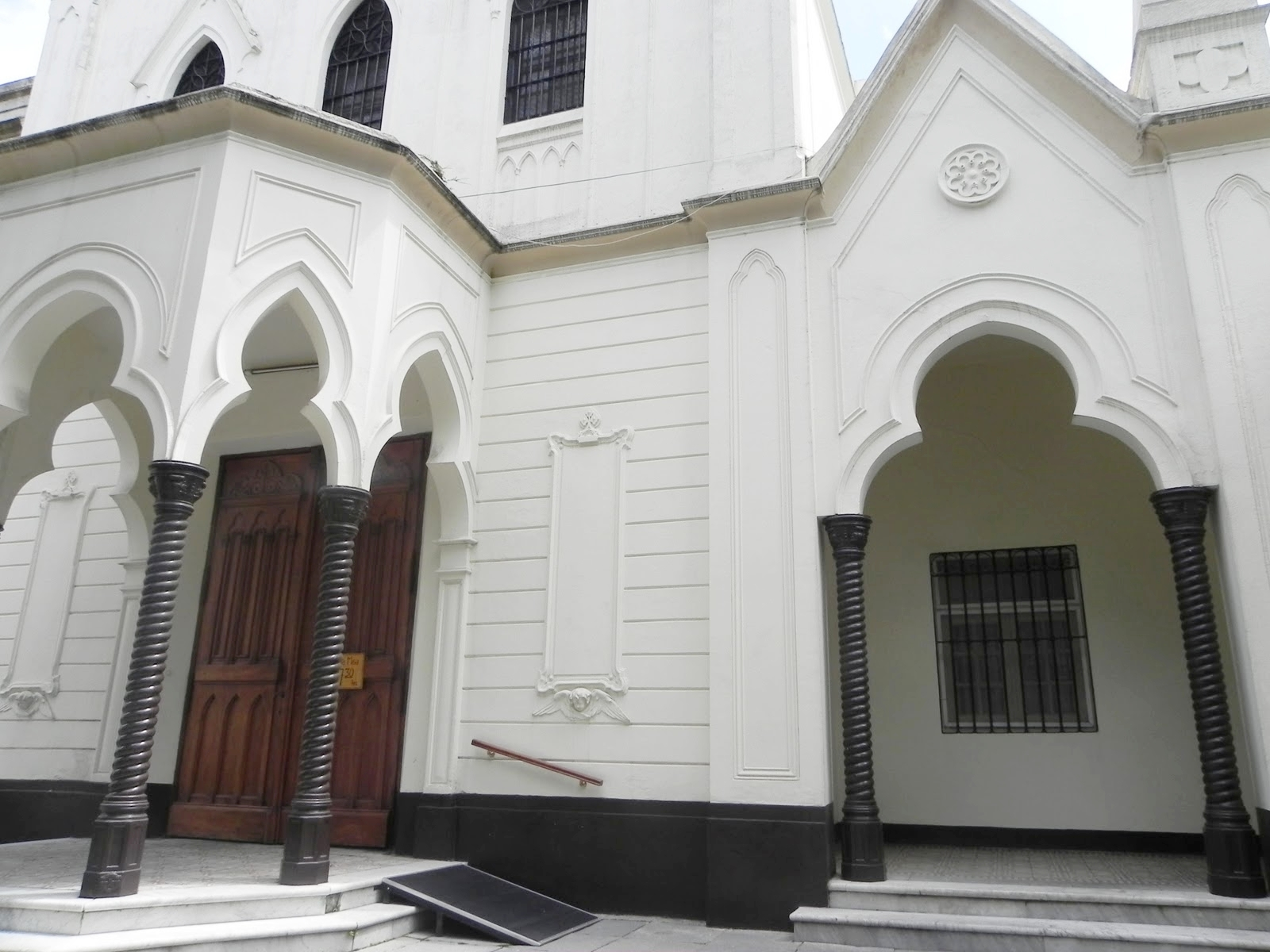 Monastery Santa Teresa de Jesús (Buenos Aires)-Entrance